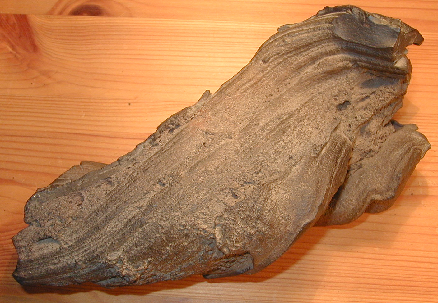 Volcanic bomb found in the lava-fields of Mt. Hekla (Iceland) on 3 Aug 1972, 17 cm long. Picture taken and uploaded by Roger McLassus (owner).